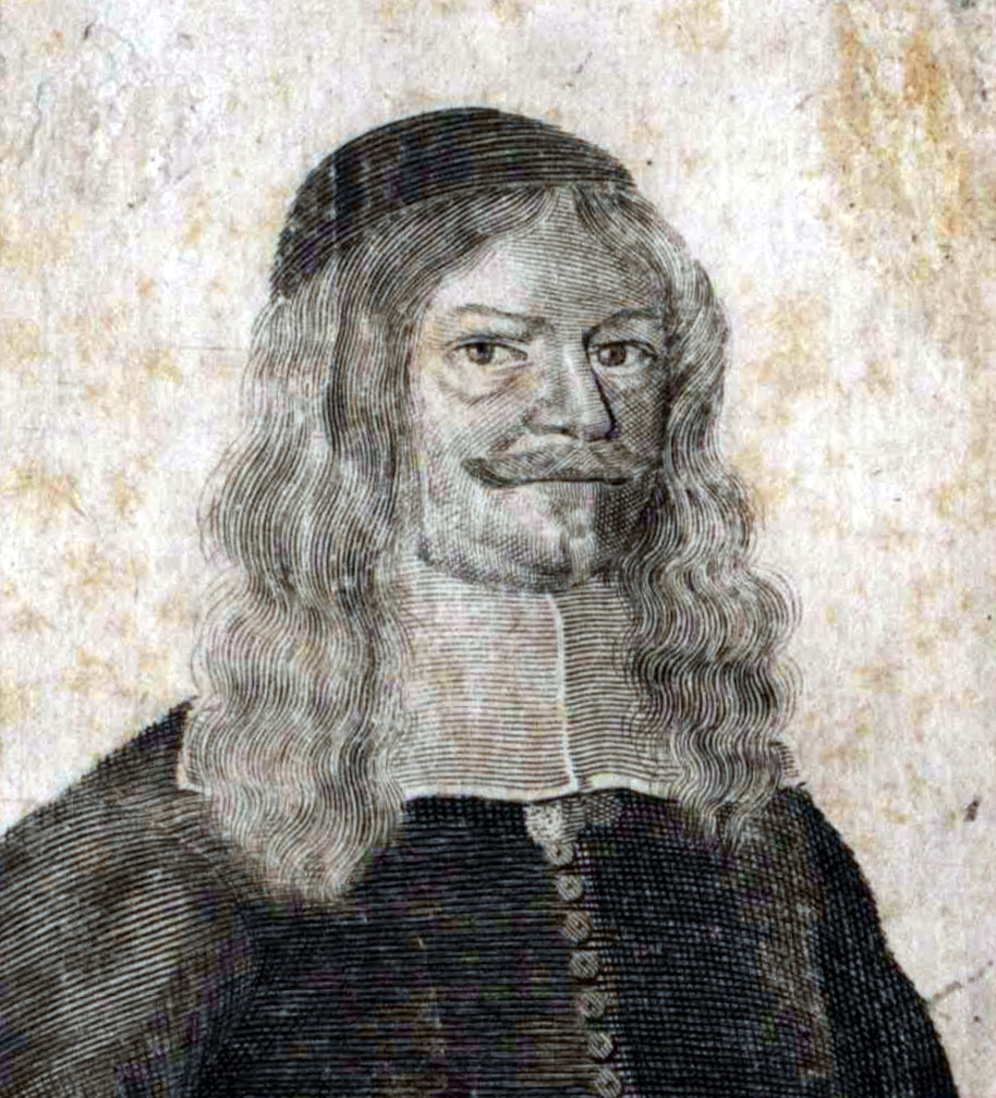 Eusebius Schenck (1569-1628) Czech Physican